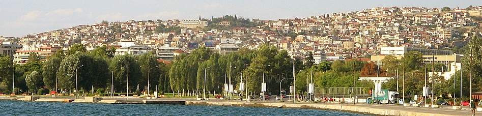 View of the Ano Poli (Old City) of Thessaloniki, Greece.